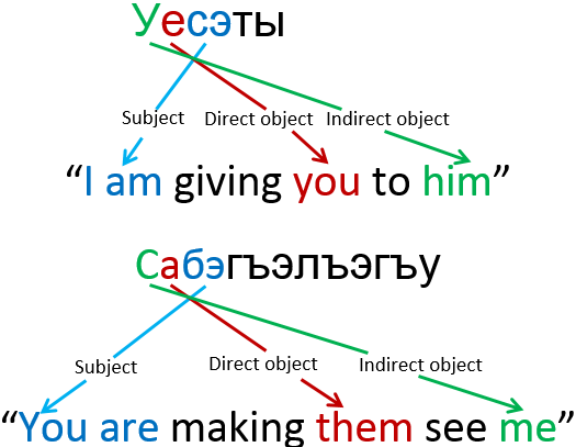 Ditransitive Ergative verbs